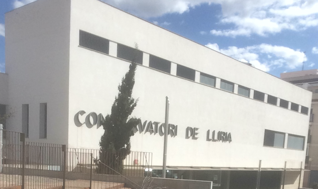 View of the conservatory of Llíria (Valencia - Spain)